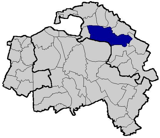 Map, France, Val-de-Marne, position of Champigny-sur-Marne in the department.